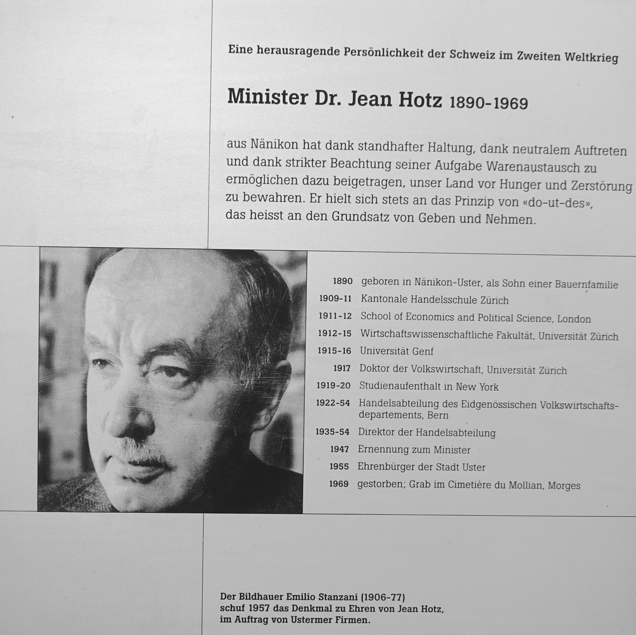 Denkmal (1957) für Jean Hotz (1890-1969) Schweizer Minister, von Emilio Stanzani (1906-1977), Bildhauer. An der Stationstrasse 1, Uster, Schweiz